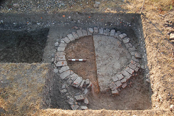 hearth of the medieval Benedictine abbey of Bizere near Frumușeni, Romania